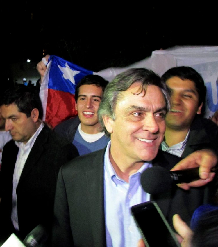 Pablo Longueira emerges triumphant from the Alianza primary. Photo by Jared Lucky / The Santiago Times.